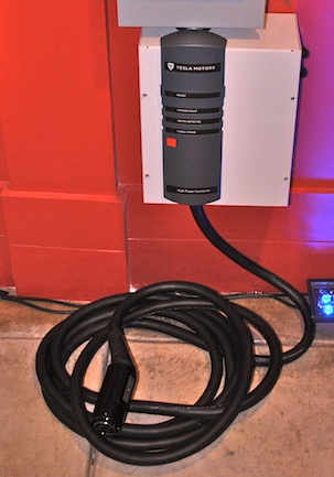 Tesla Roadster charger station